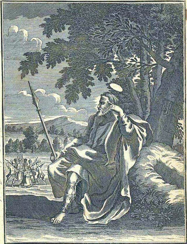 "By the command of an Indian King he was thrust through with Lances" (1739) Source: ebay, Nov. 2004 "A copper-plate engraving from 1739 on a light, handmade paper. From the Compleat History of the Holy Bible by Laurence Clarke, A.M. Published in London, for the author. From the Apocrypha and the New Testament."